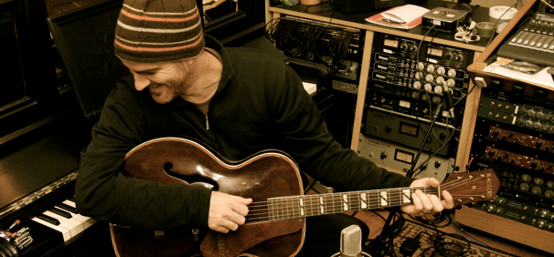 This is a picture of Ed Cash in his studio, producing an album and contributed guitars to the record.